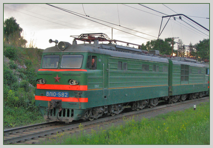 Electric locomotive VL10-582 in suburbs of Tomsk